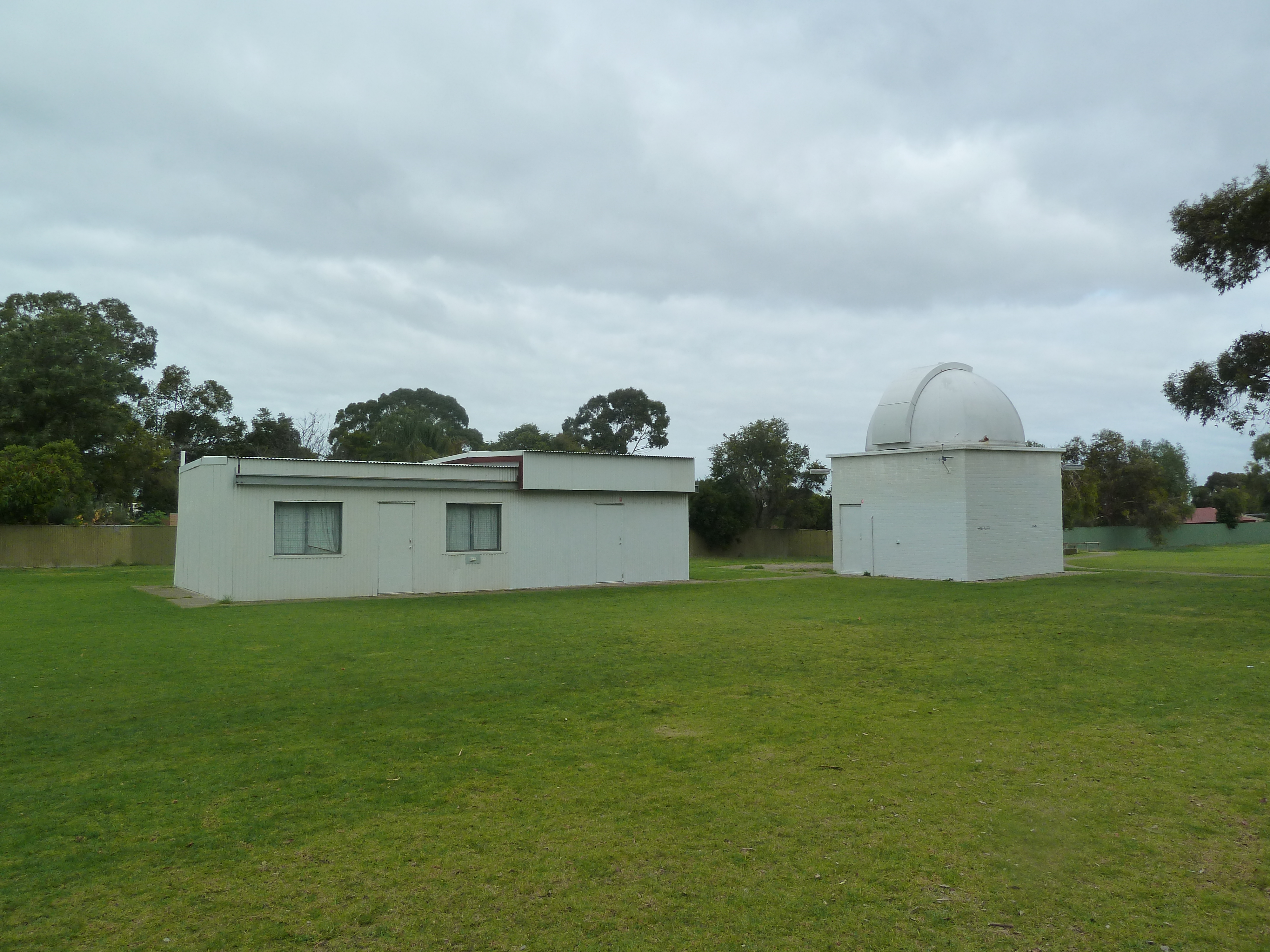 The Heights Observatory with the Emanual Papaelia Observatory (Right) and Inghams Family Rooms (Left)